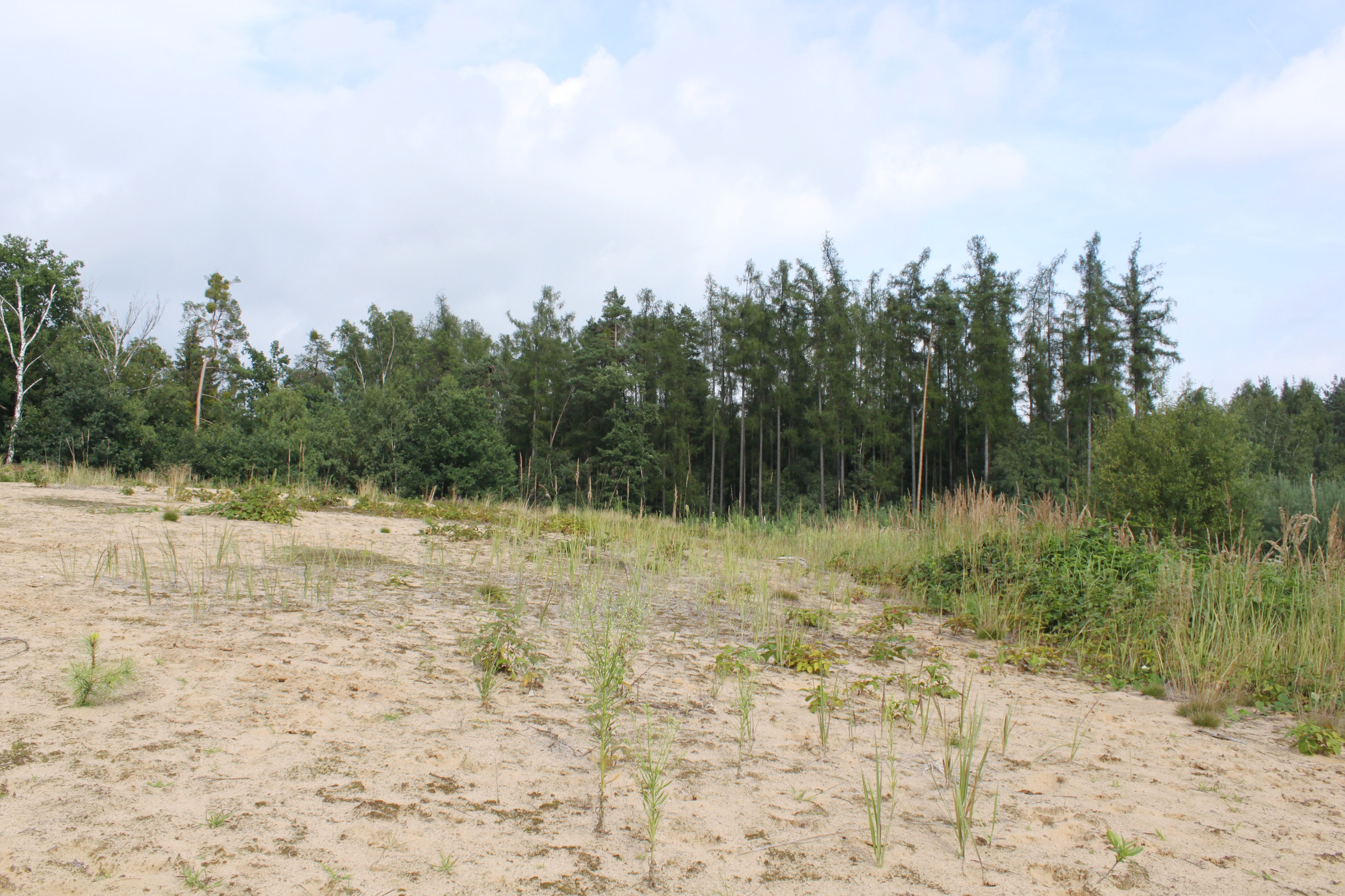 Vesecký kopec - large sand dune in Pardubice District